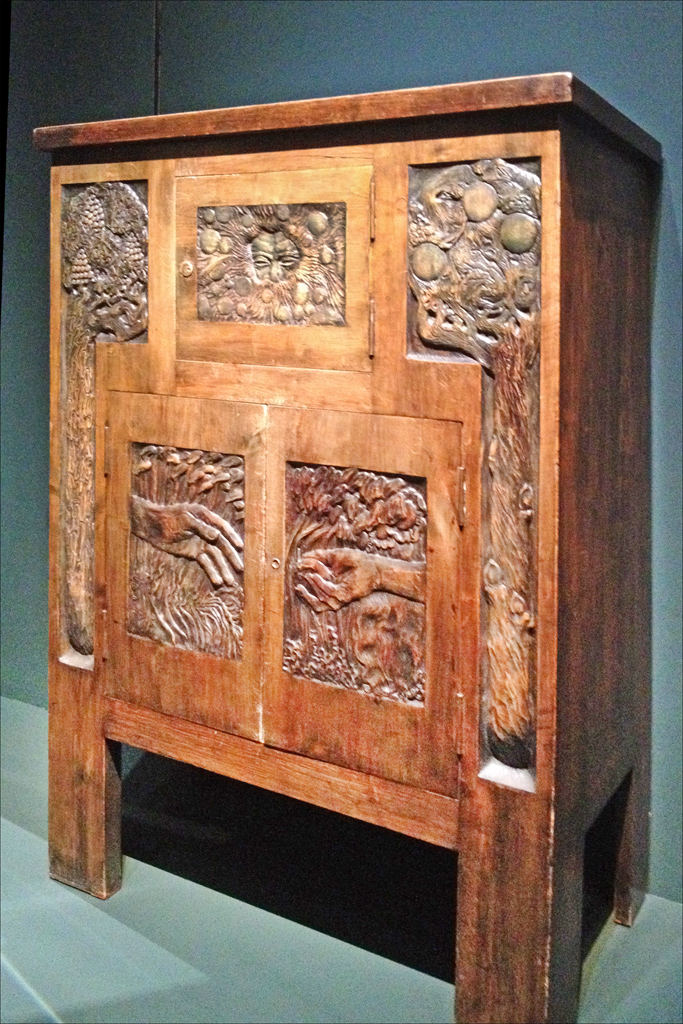 Buffet "The tree of good and bad knowledge" Akseli Gallen-Kallela 1897-1899. Pine. Espoo, Gallen-Kallela Museum, Finland. This sideboard was designed by the artist for his own use. He represented the biblical theme of the Garden of Eden in a style combining primitivism and symbolism. Note the divine figure in the center between the two apple trees, above the male hand and feminine hand almost meet. Exhibition at Musée d'Orsay: Akseli Gallen-Kallela - Finnish passion.